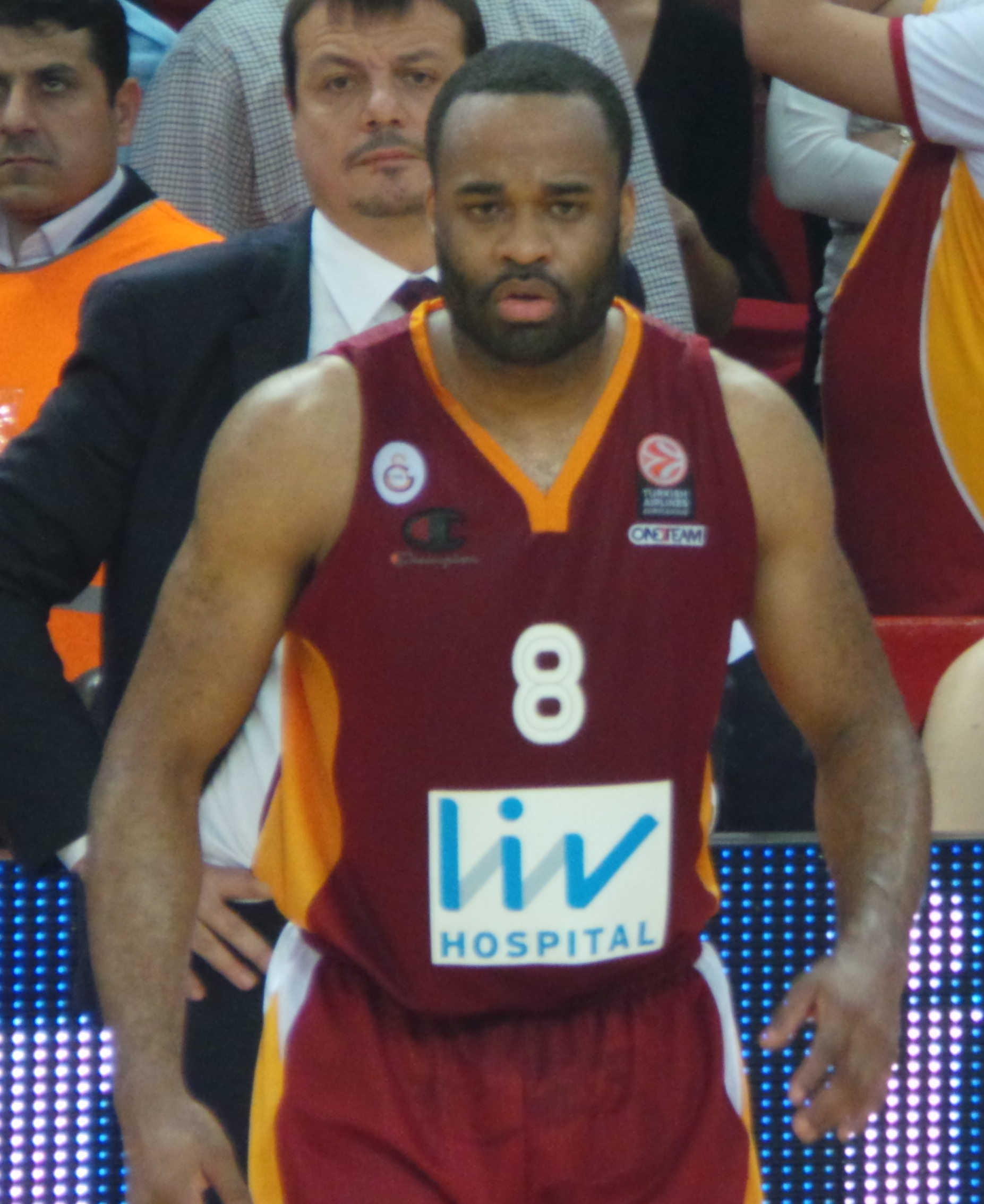 Malik Samory Hairston '13 against Siena